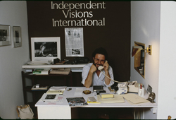 Alain Jullien, director of the Visions office in New York, negotiates with an editor at Newsweek magazine about an assignment in Central America.